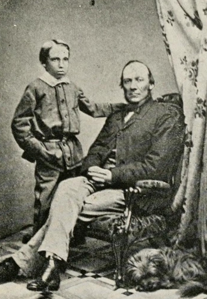 Thomas Stevenson and his son, when Louis was 10 years old.